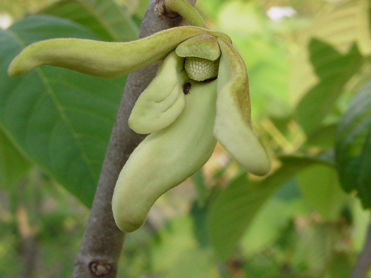 Nitidulidae beetle visiting the flower of the cherimoya (Annona cherimola Mill.), in commercial orchard of Jundiaí, state of São Paulo, Brazil.